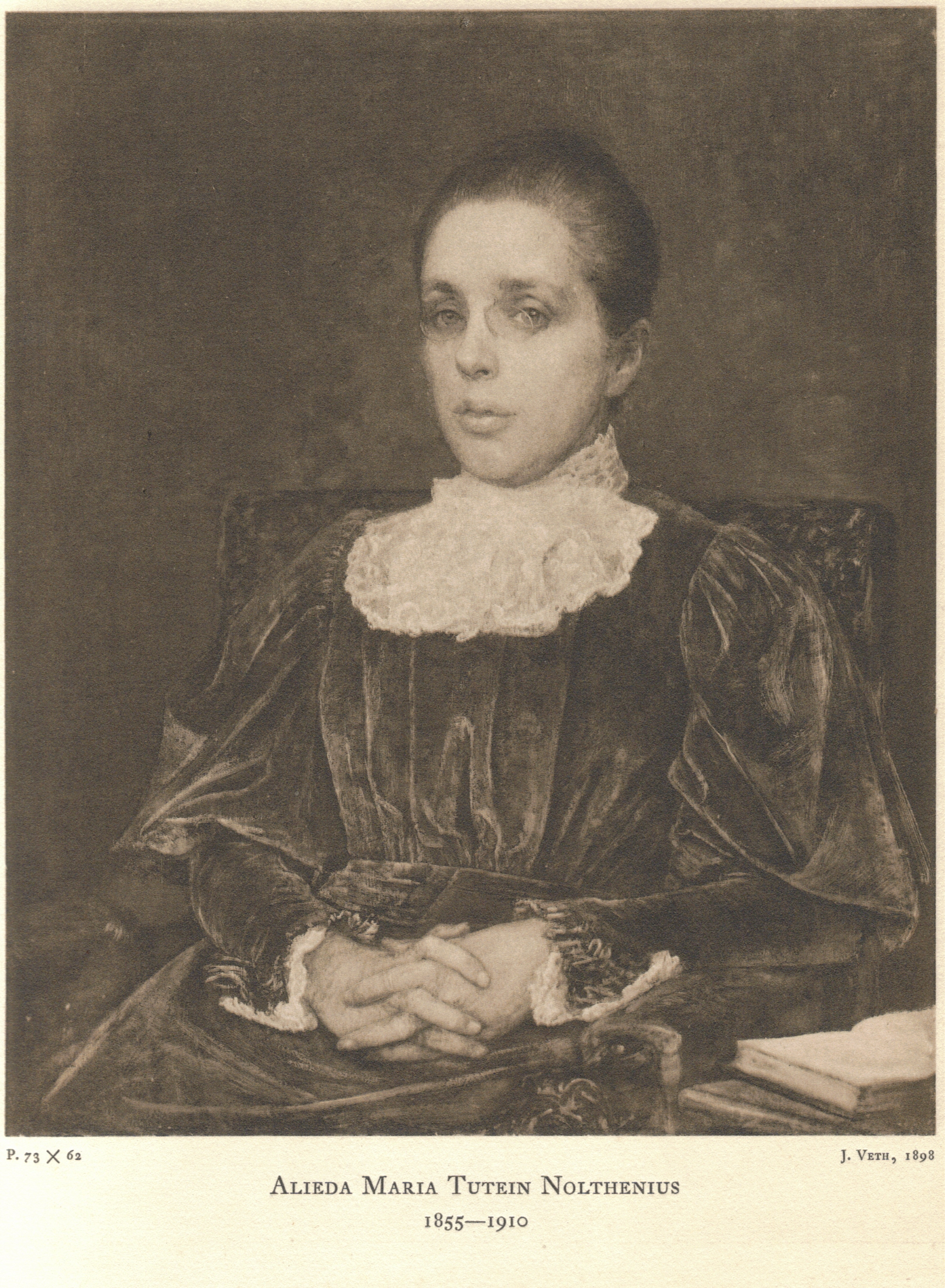 portrait of Alieda Maria Tutein Nolthenius (1855-1910)